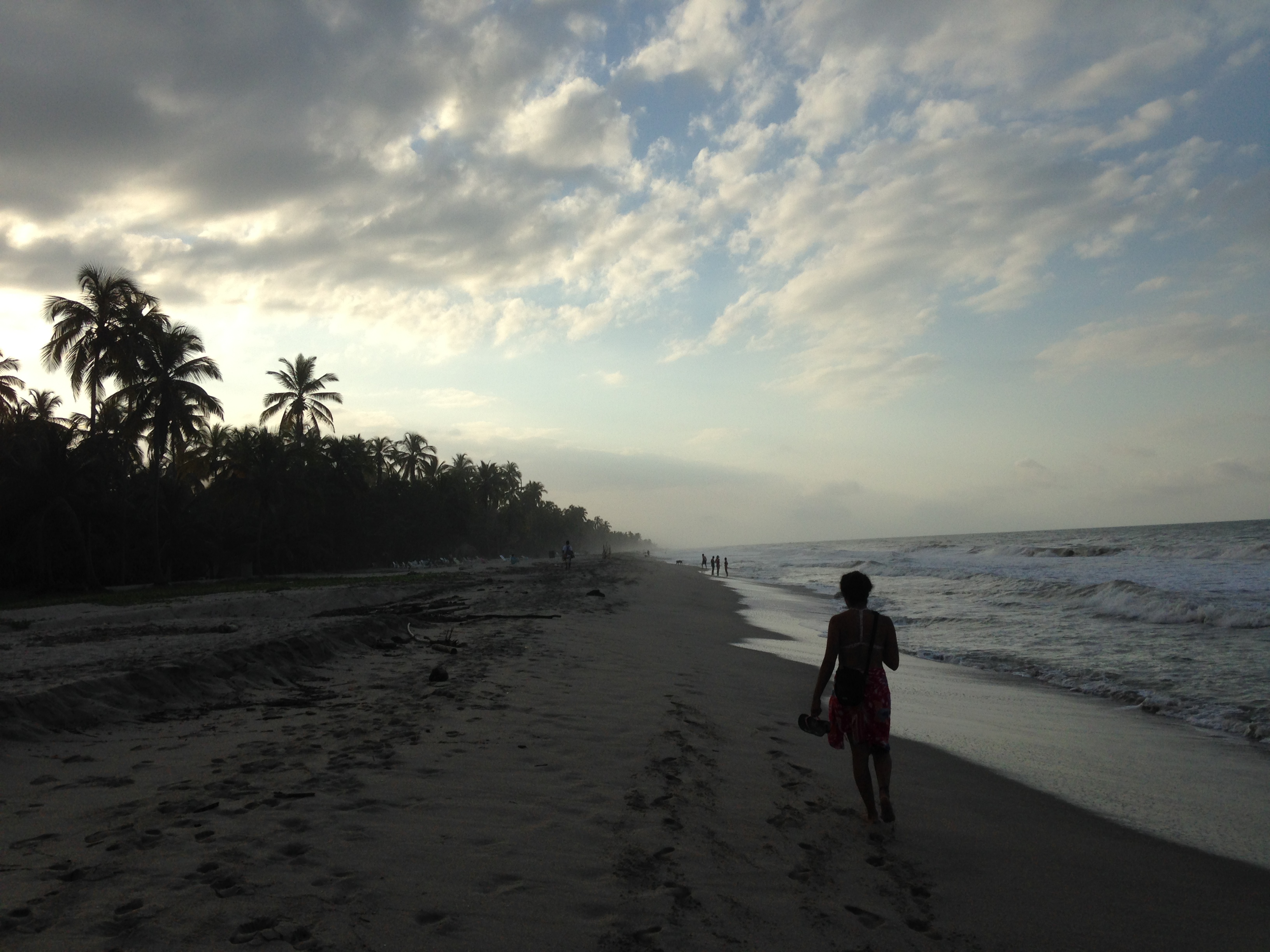 Palomino, La Guajira, Colombia